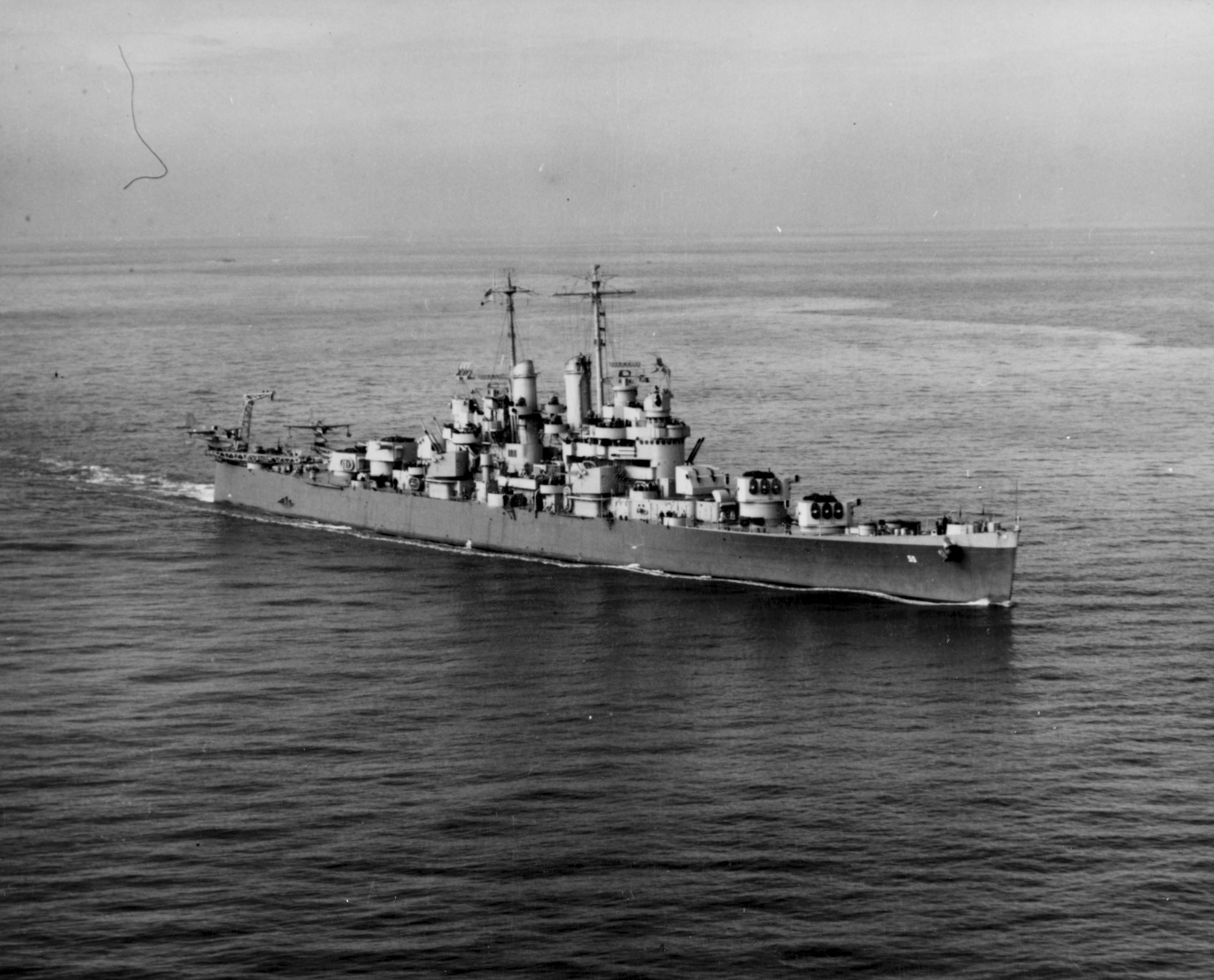 The U.S. Navy light cruiser USS Cleveland (CL-55) underway at sea in late 1942. Note that the ship's forward 152 mm gun turrets and gun director appear to be tracking the photo aircraft.